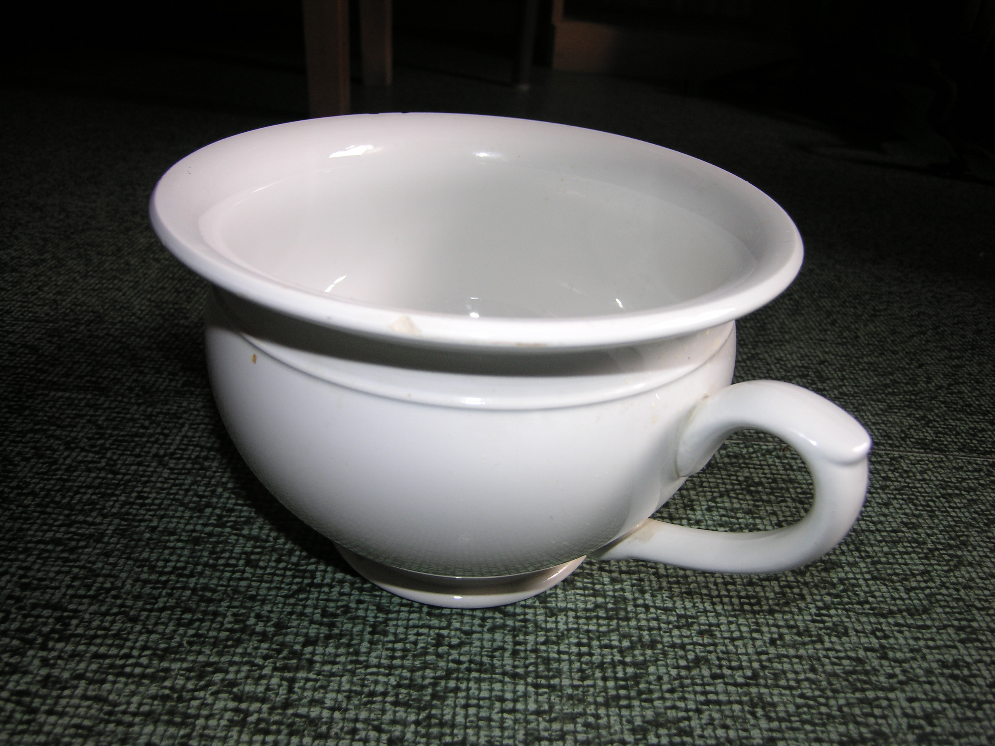 Chamber pot, found in Unter Engadin, Switzerland.